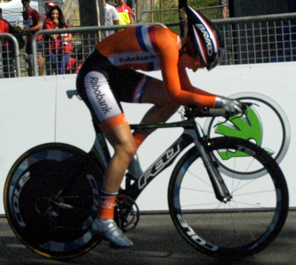 2013 UCI Road World Championships, Demi de Jong